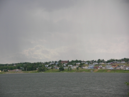 View of Stanley Mission - west, taken by Fremte, Aug 2007